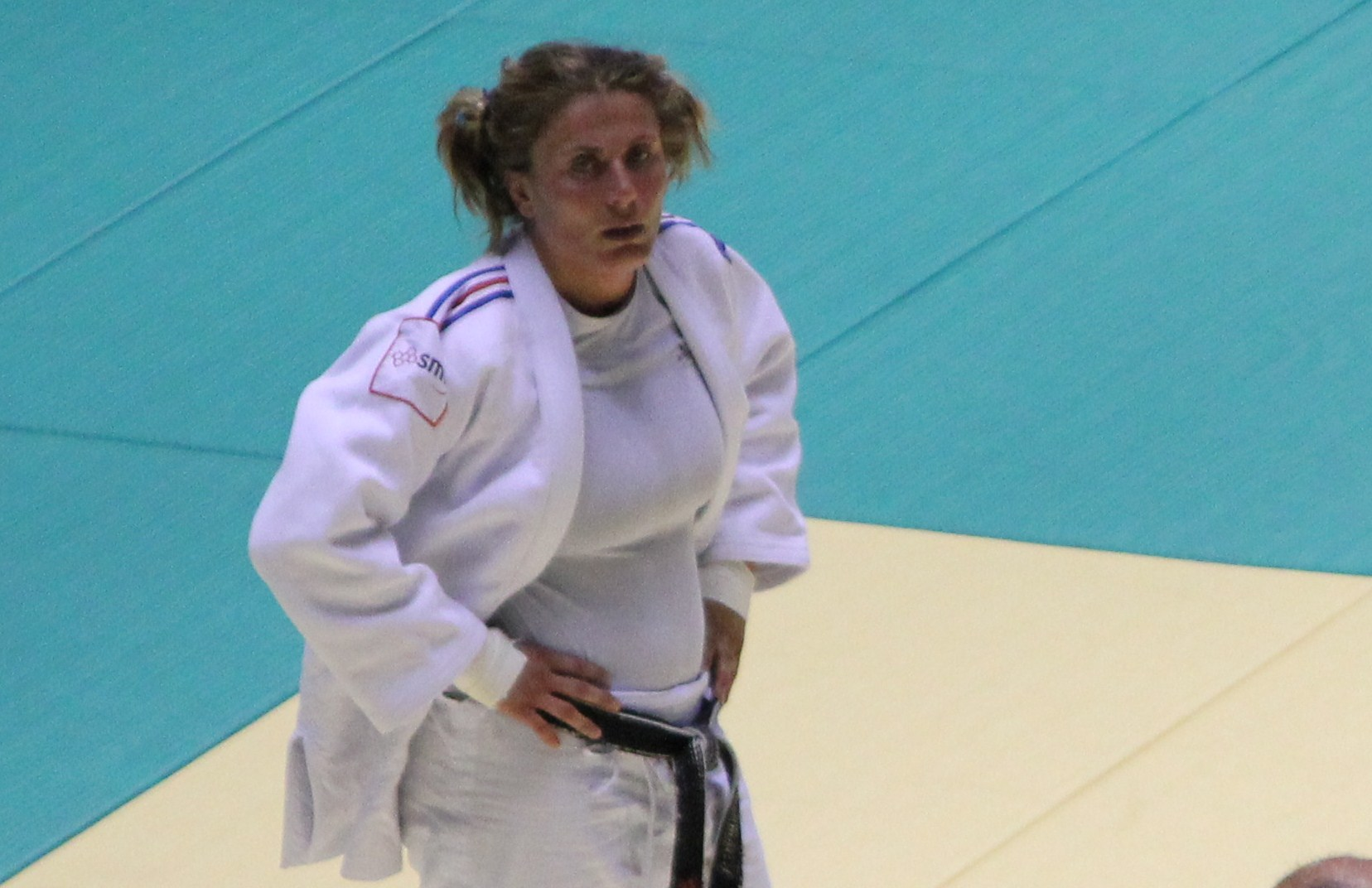 French judoka Stéphanie Possamaï during the 2010 World Judo Championships held in Tokyo, Japan.